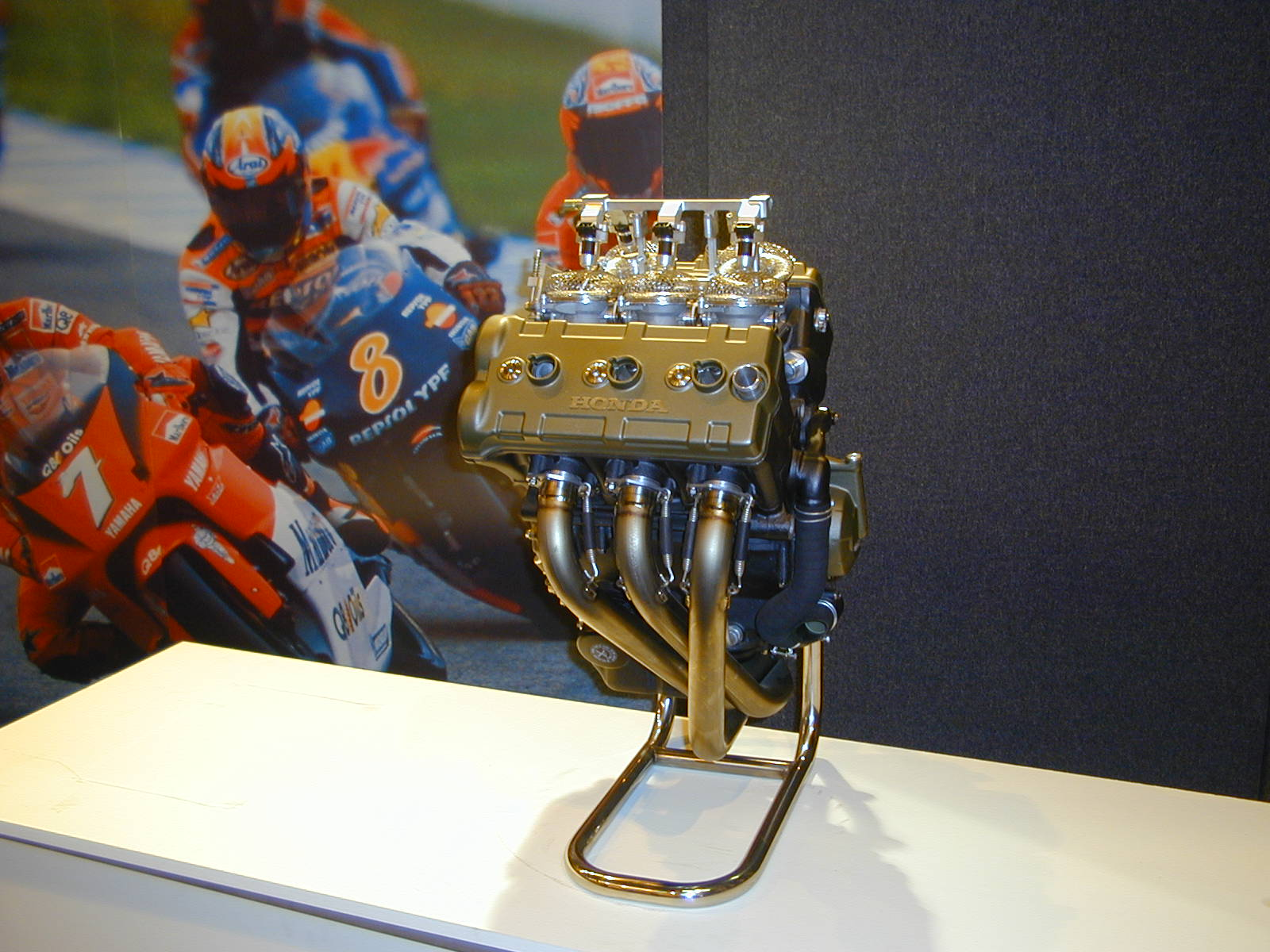 250 bhp Honda V5 Moto GP Engine